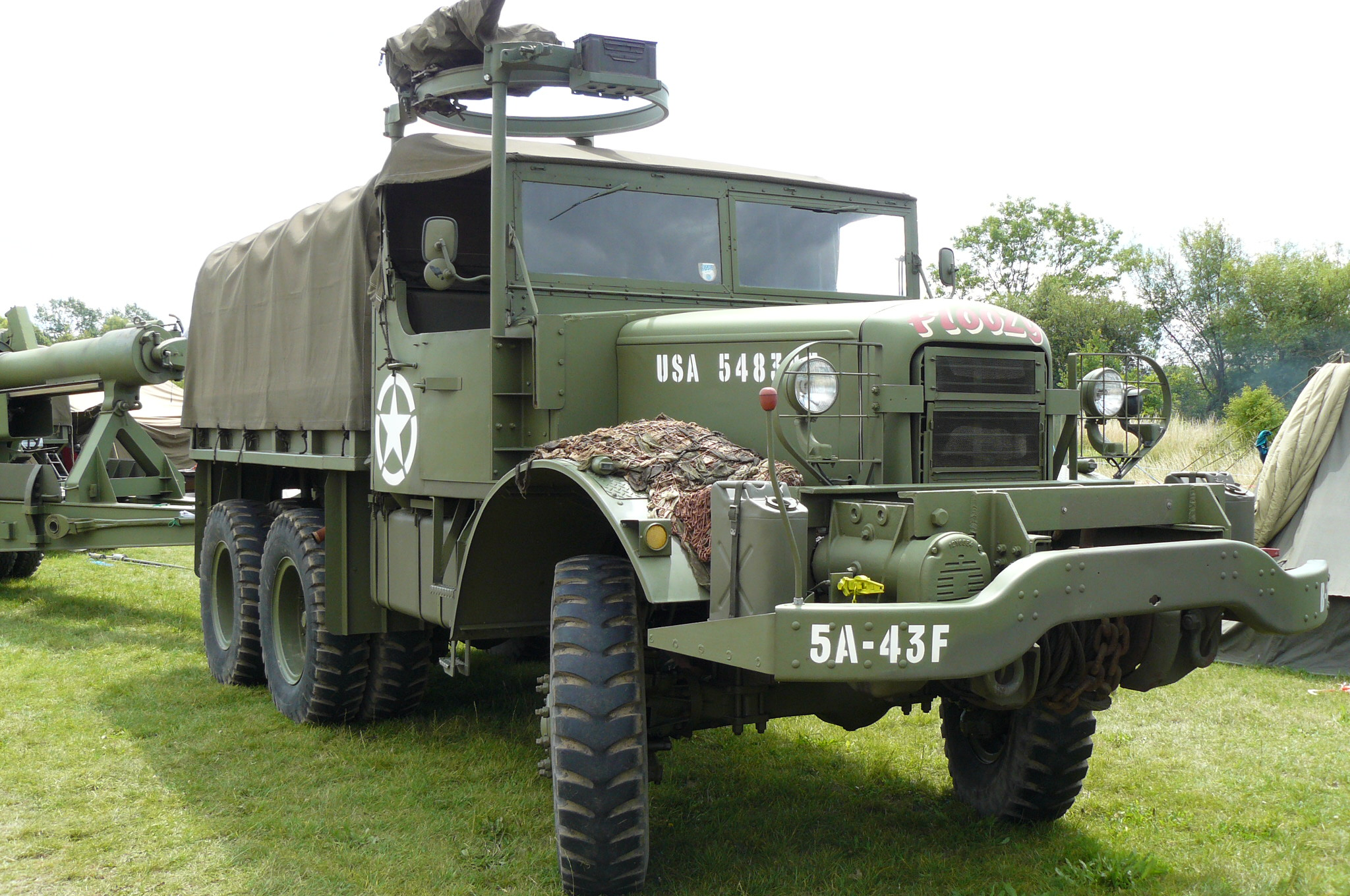 Mack NO, artillery tractor. As seen in War and Peace show in England. July 2011.